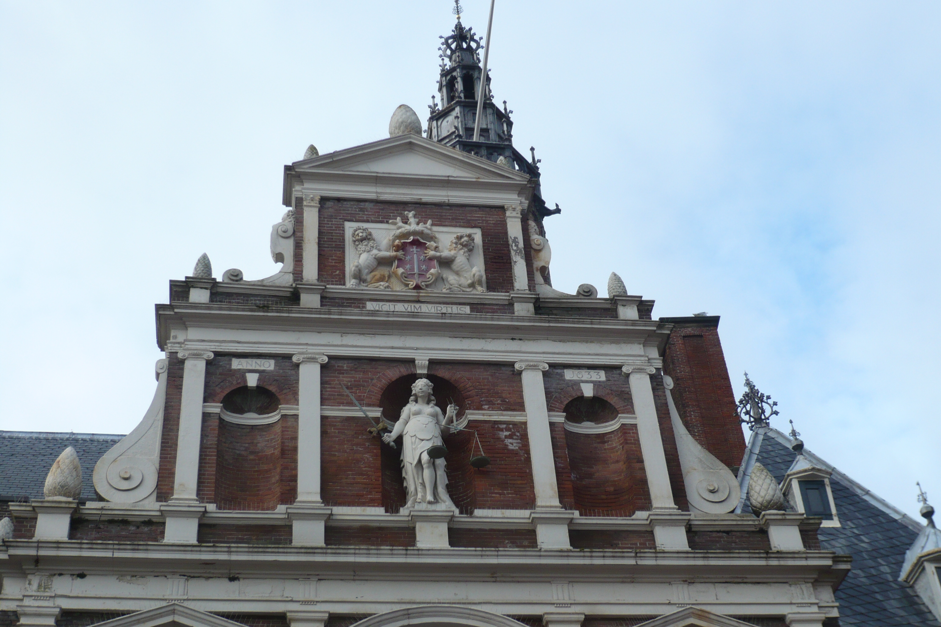 Vierschaar, Stadhuis Haarlem